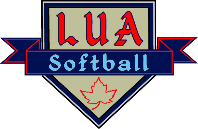 The inaugural logo of the Limestone Umpire Association